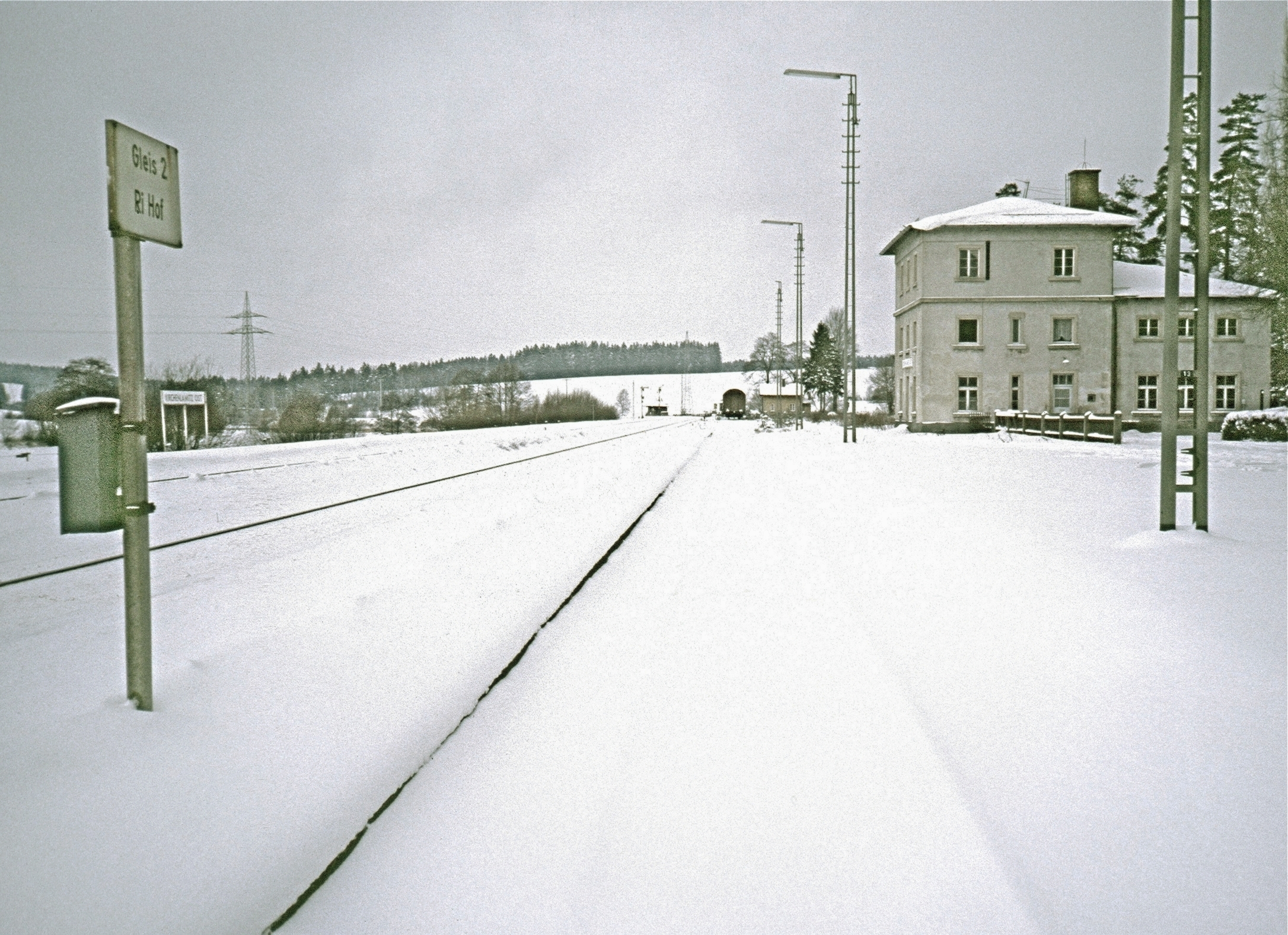 Kirchenlamitz railway station